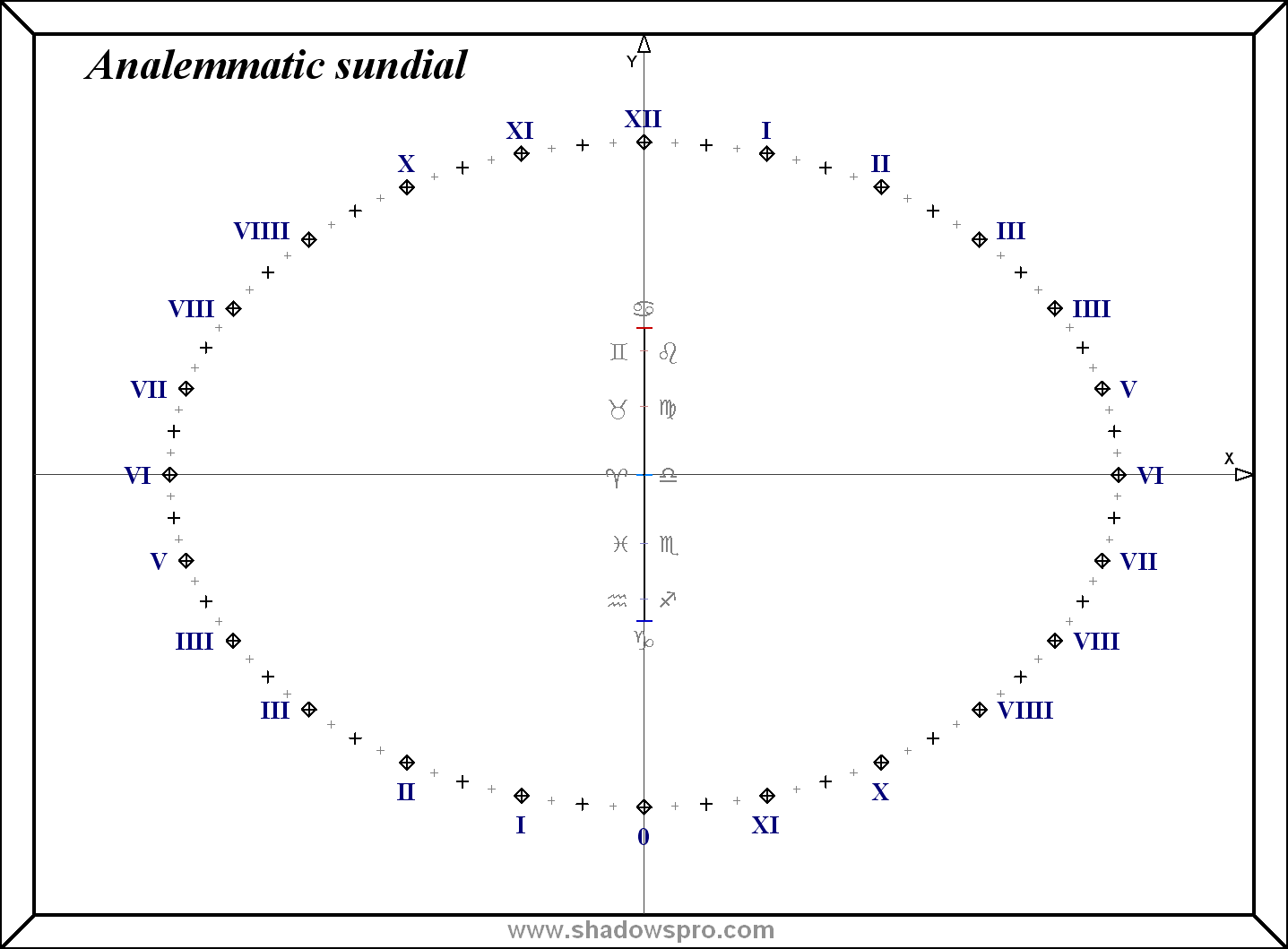 Horizontal analemmatic sundial design for the Bologna (Italy) latitude (44°29' N), drawn by the Shadows Expert shareware